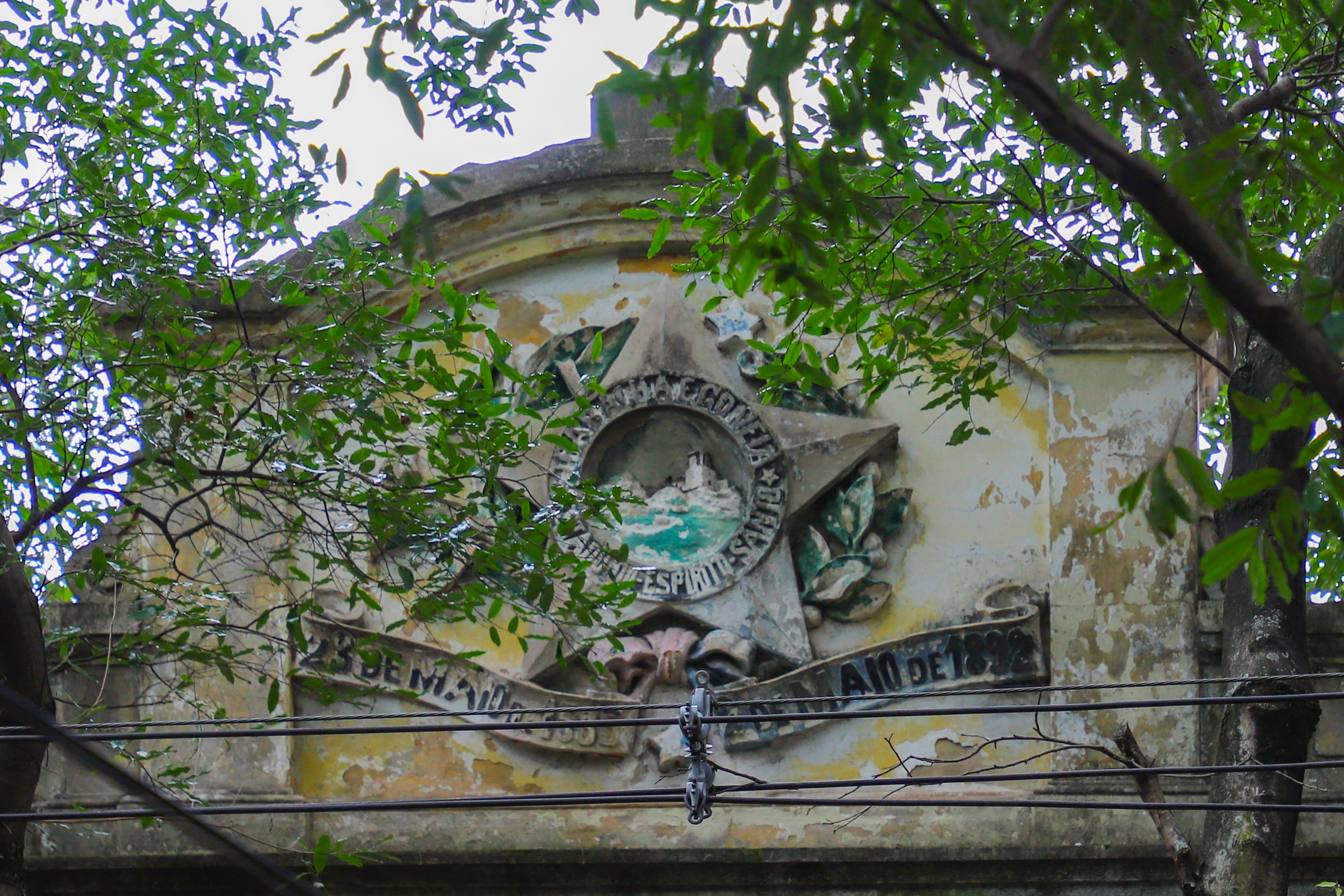 Public Archive of the State of Espírito Santo, Vitória, Espírito Santo, Brazil.